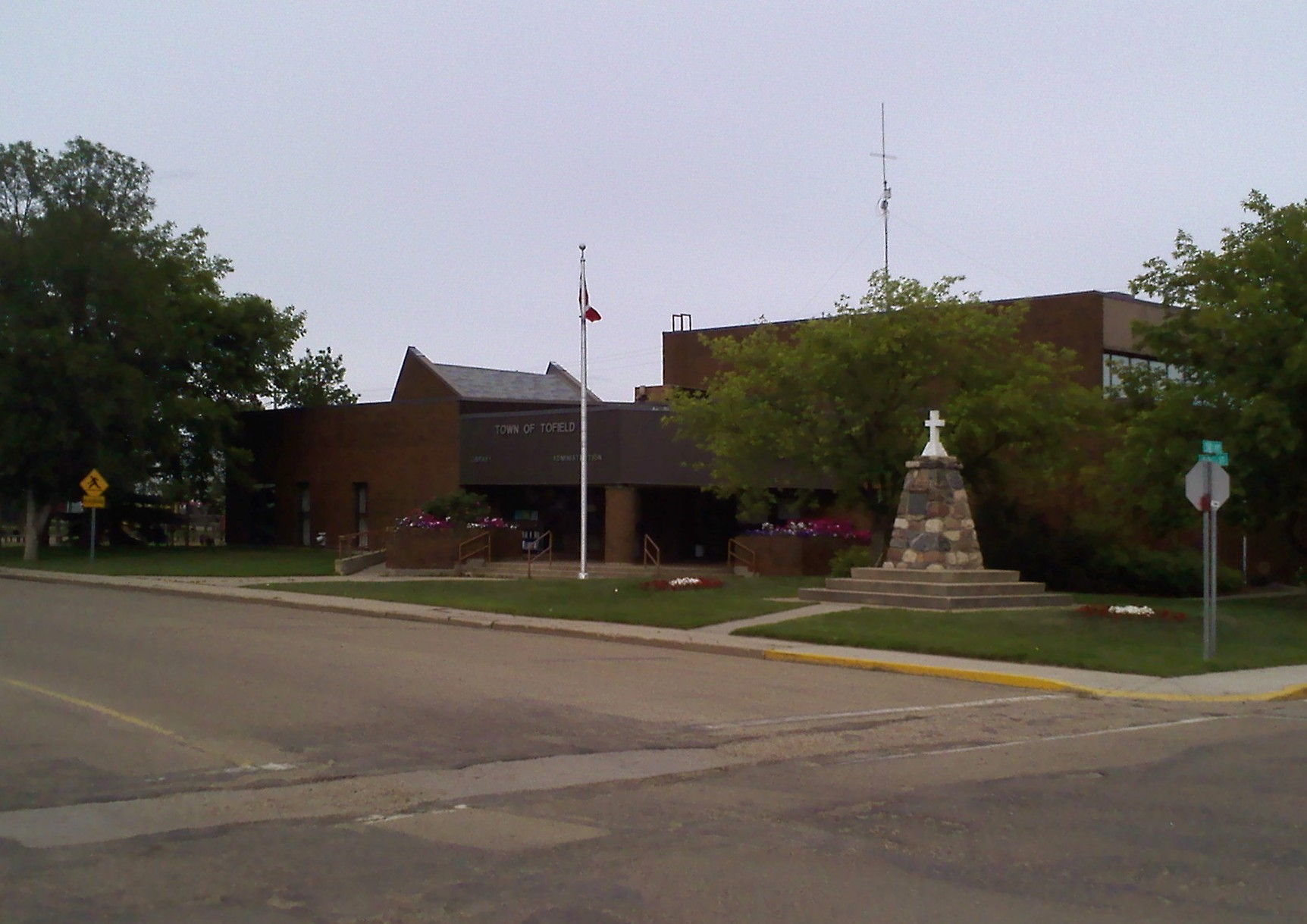 Town administration building and library at 5407 50 Street, Tofield, Alberta.